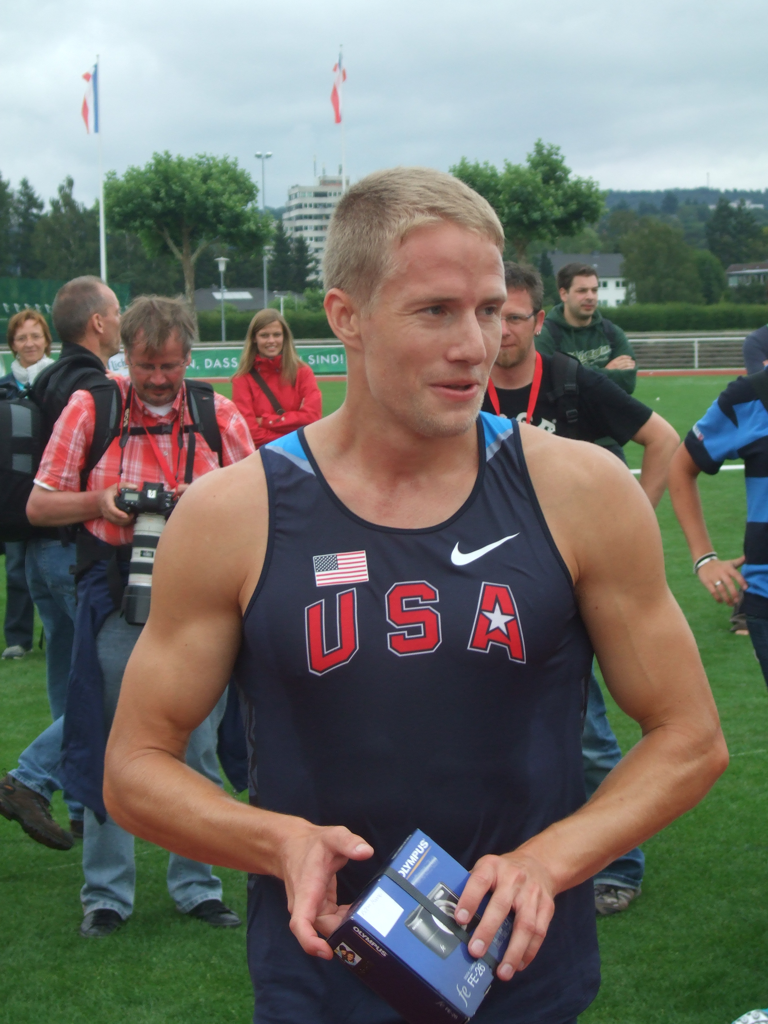 Decathlete Joe Detmer after competing at the 2010 Thorpe Cup